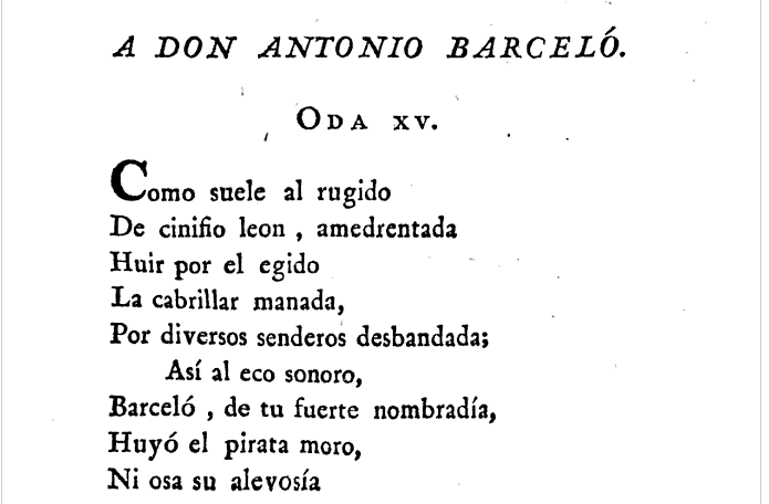 Excerpt from "To Don Antonio Barcelo. Ode XV." (1791)